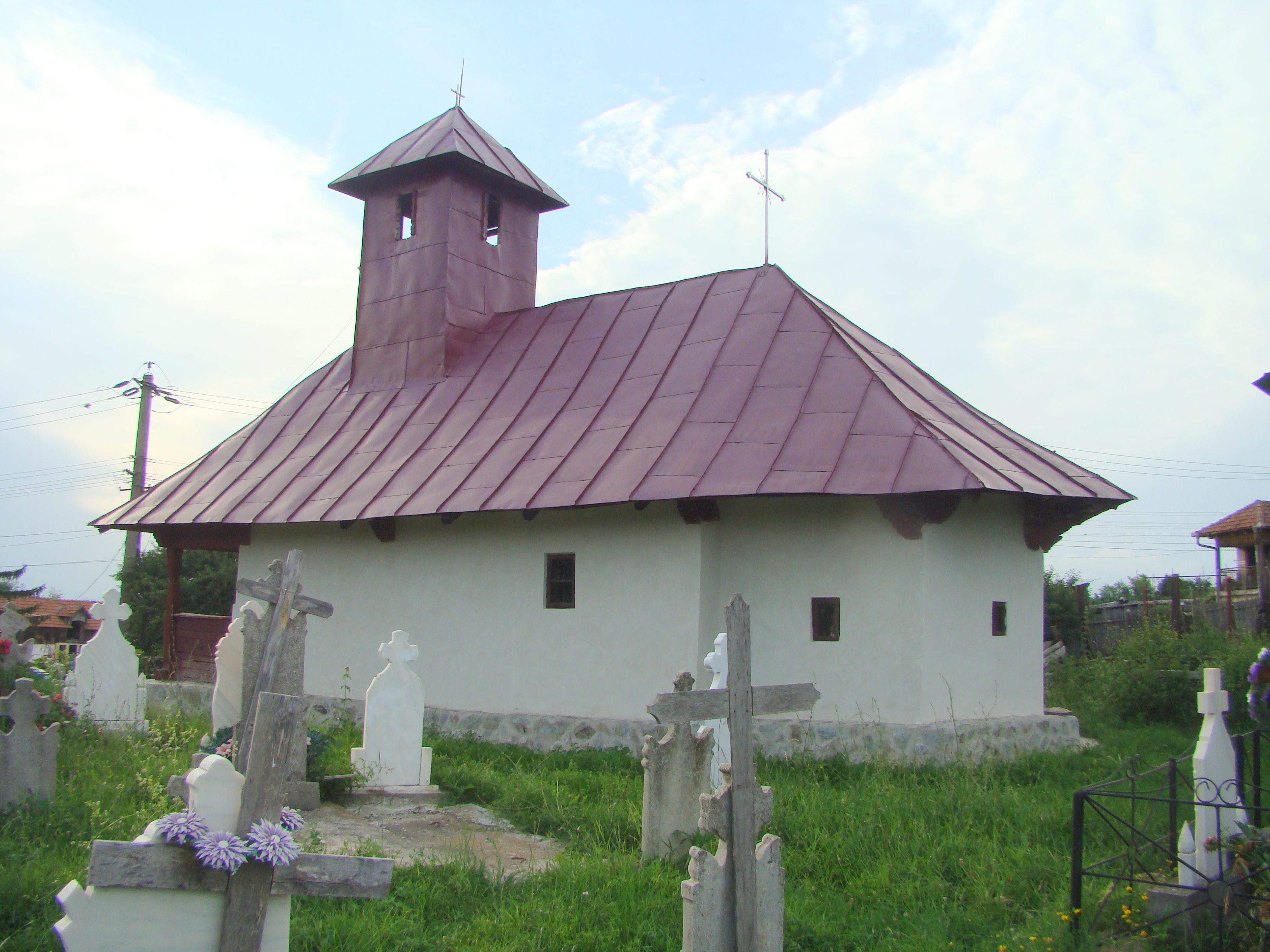 Wooden church in Becheni, Gorj county, Romania